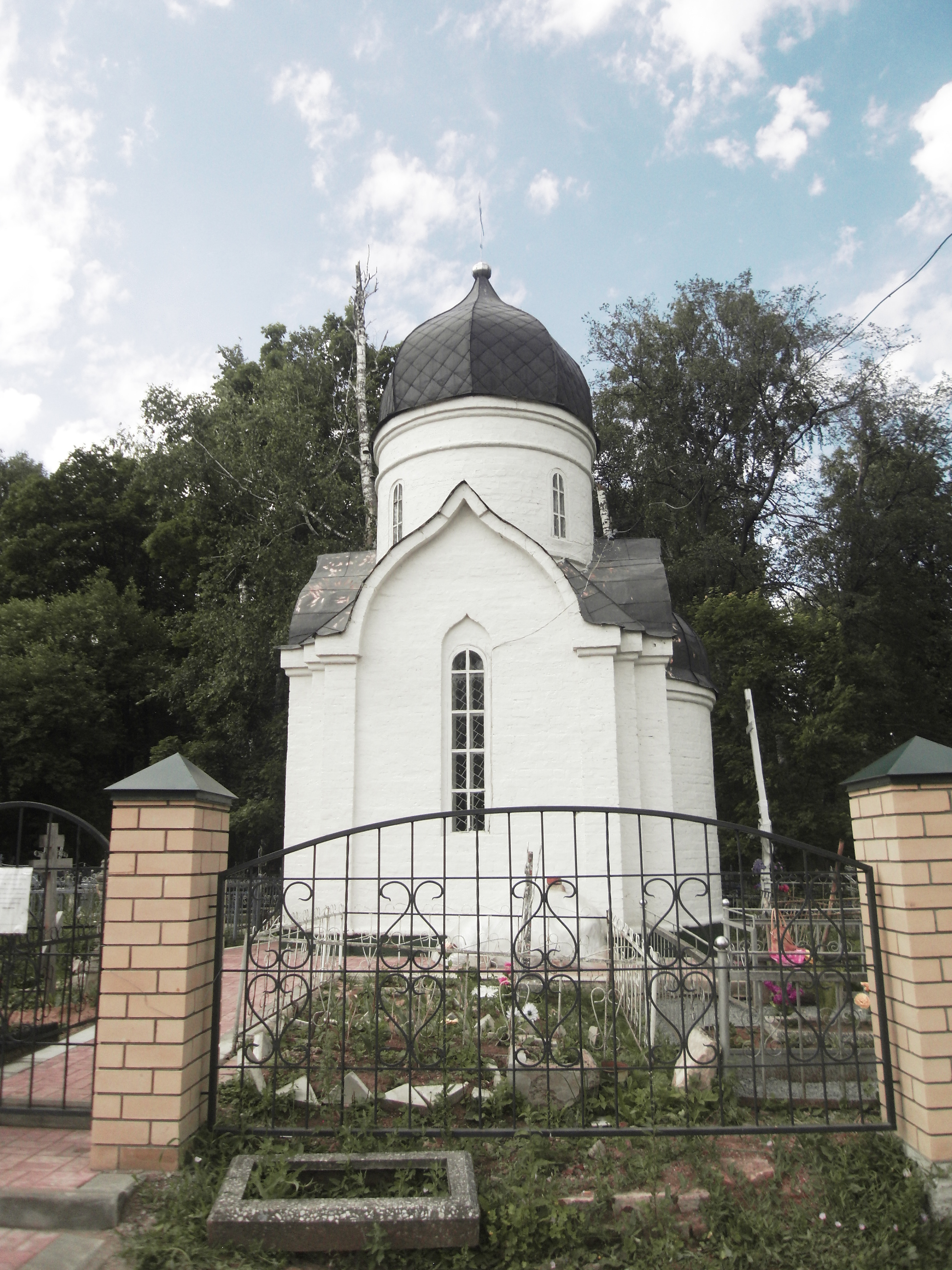 Mattew of Yaransk chapel in Yaransk, Russia